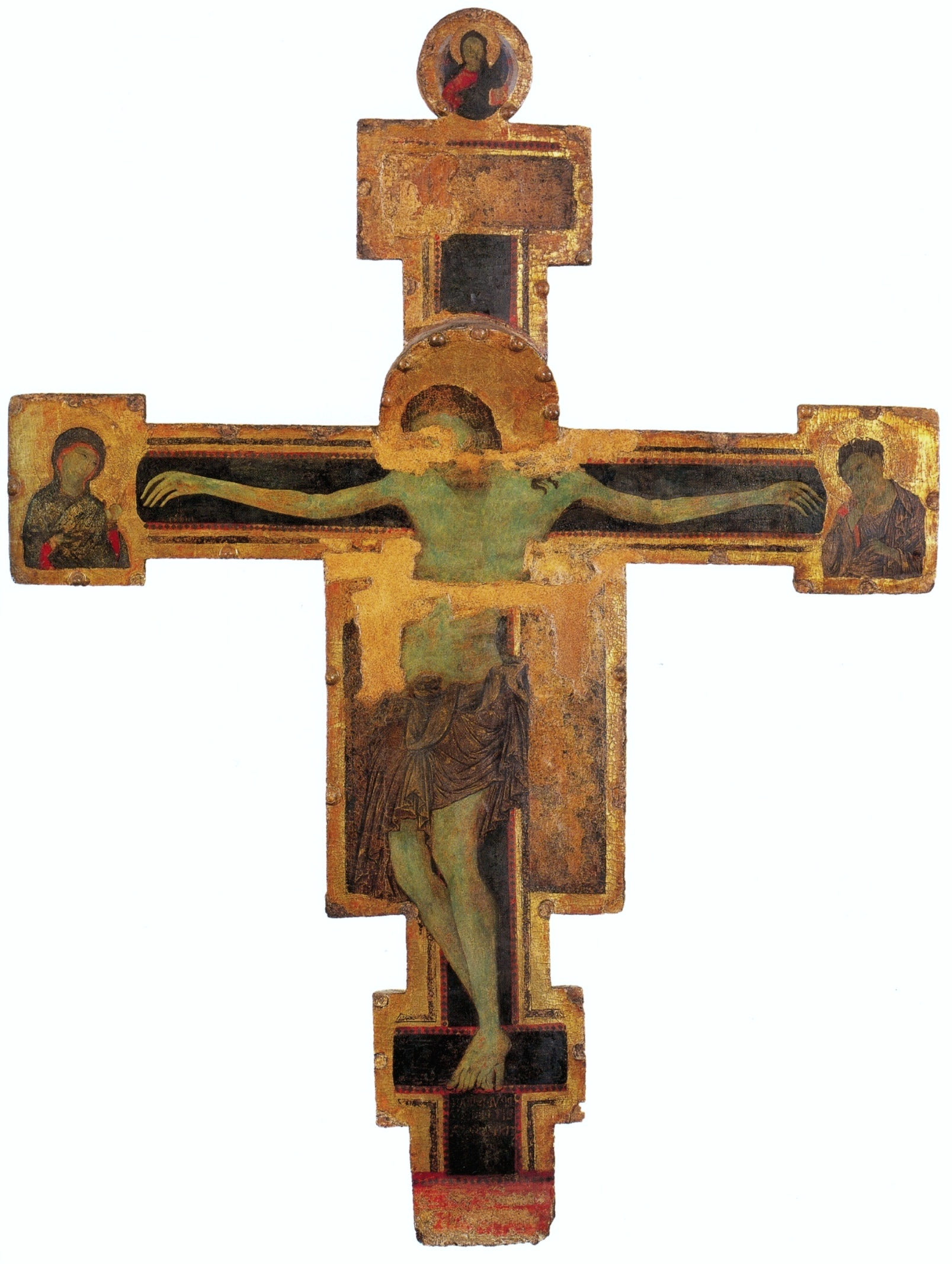 Ranieri d'Ugolino, Croce dipinta, VIII-IX decennio del XIII secolo. Pisa, Museo Nazionale di San Matteo